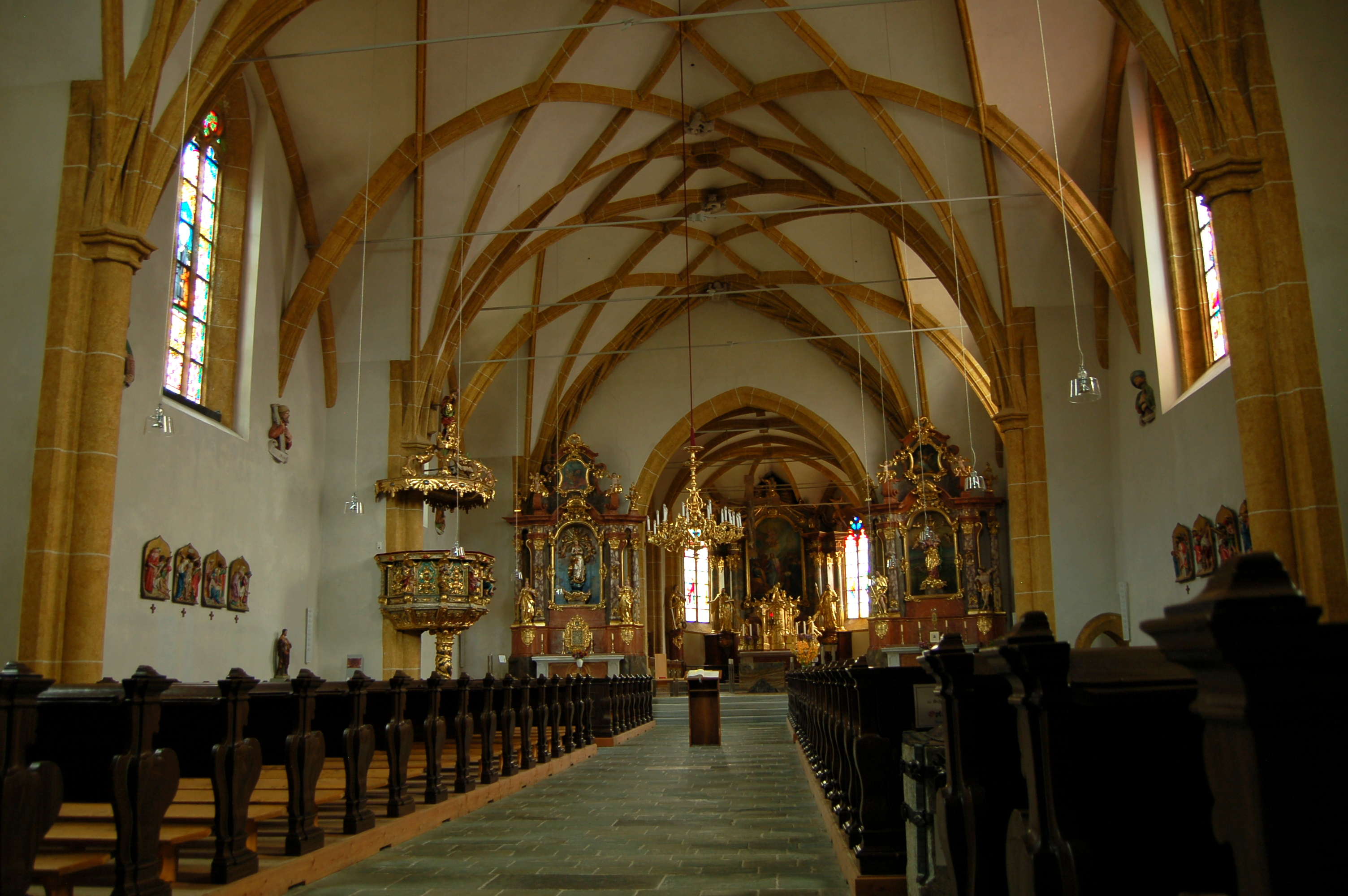 Interior of St Peter parish church in Aflenz Kurort, Styria